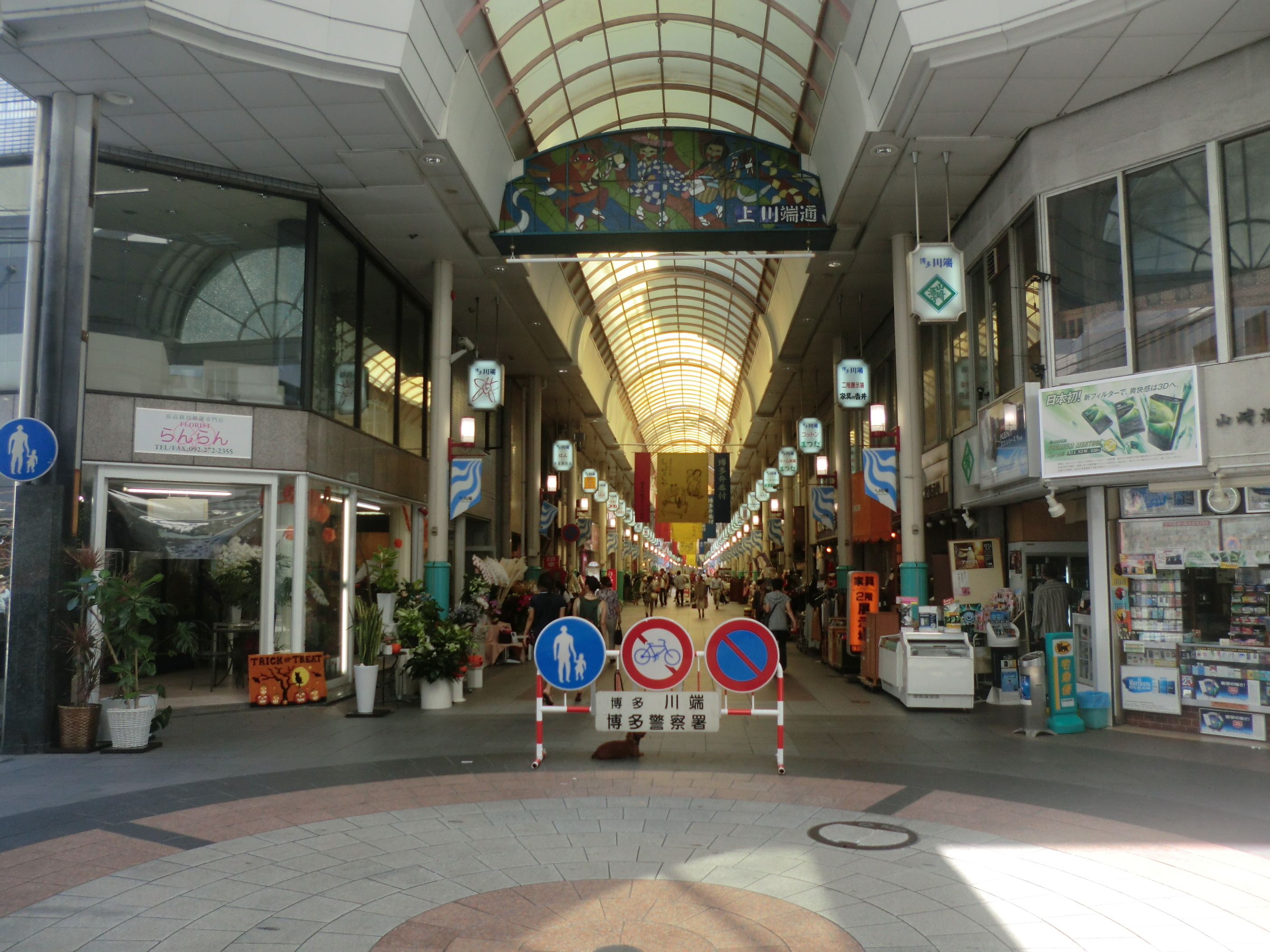 Kami-Kawabata Dori in Hakata area, Fukuoka, Japan.